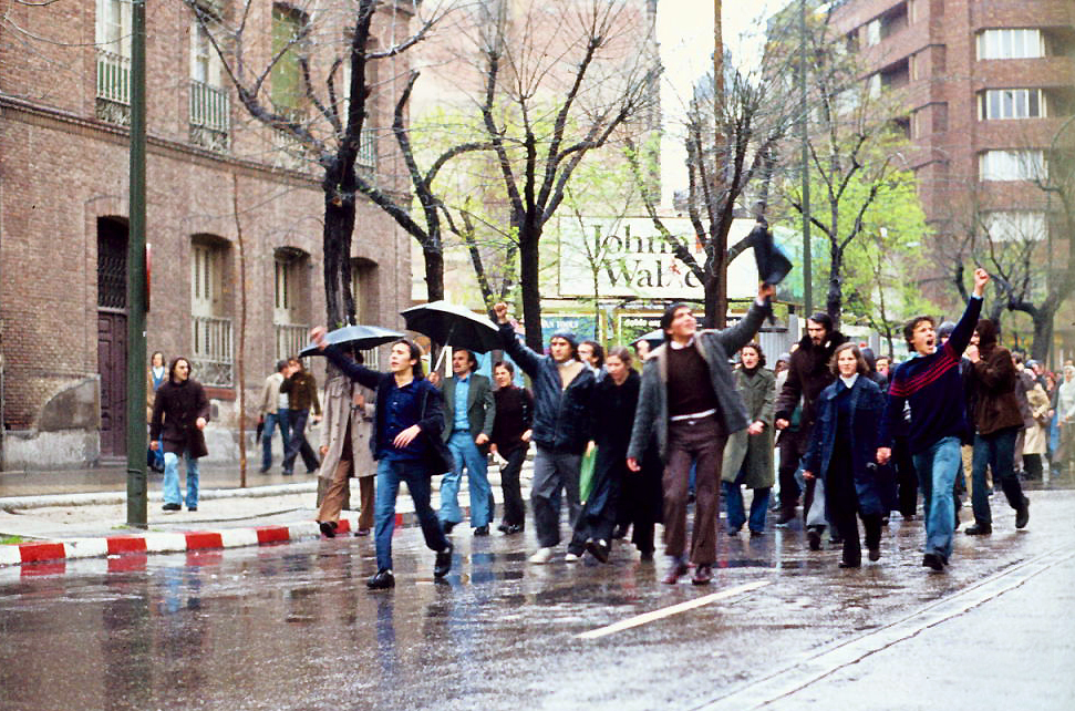 Protests of anti-francoist professionals in Almagro St. Madrid, Spain